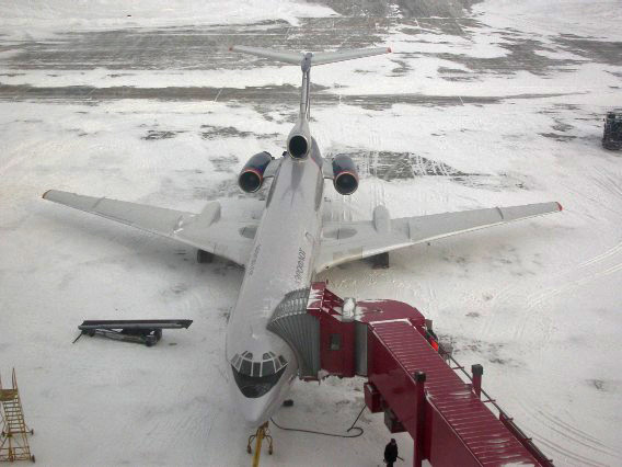 Overhead view of an Aeroflot Tupelov Tu-154 airliner taken by Michael V. Pelletier on March 20, 2005, at the Moscow Shermetyevo airport.